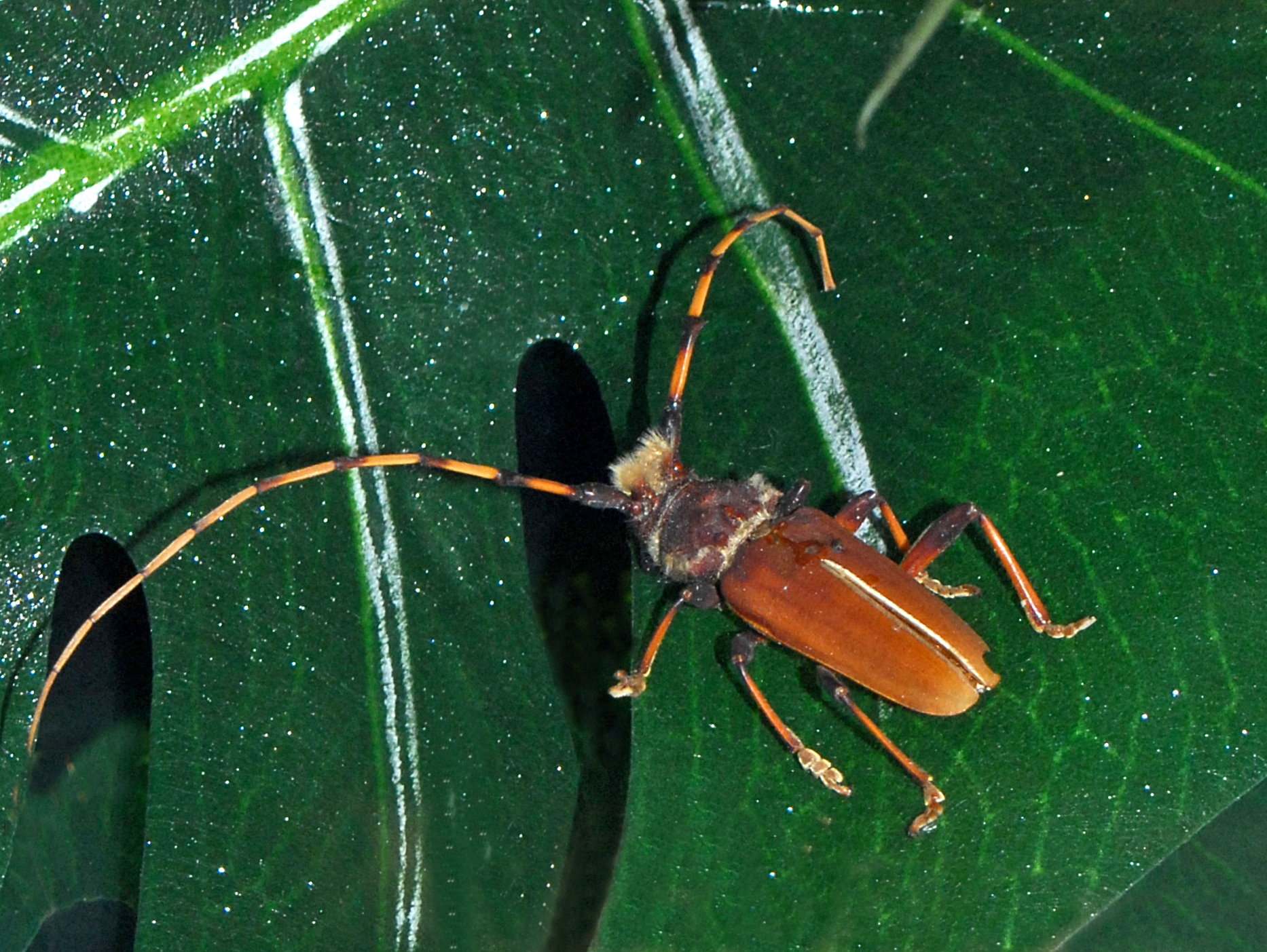 Dorcacerus barbatus. Mounted specimen on display at the Museo Civico di Storia Naturale di Milano